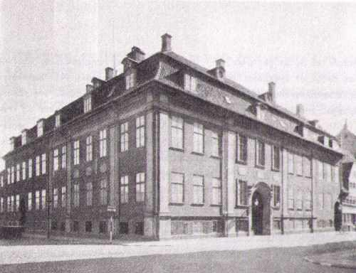 Treschows Palæ, now Wedels Palæ, On the corner of Ny Kongensgade and Frederiksholms Kanal in Copenhagen, Denmark